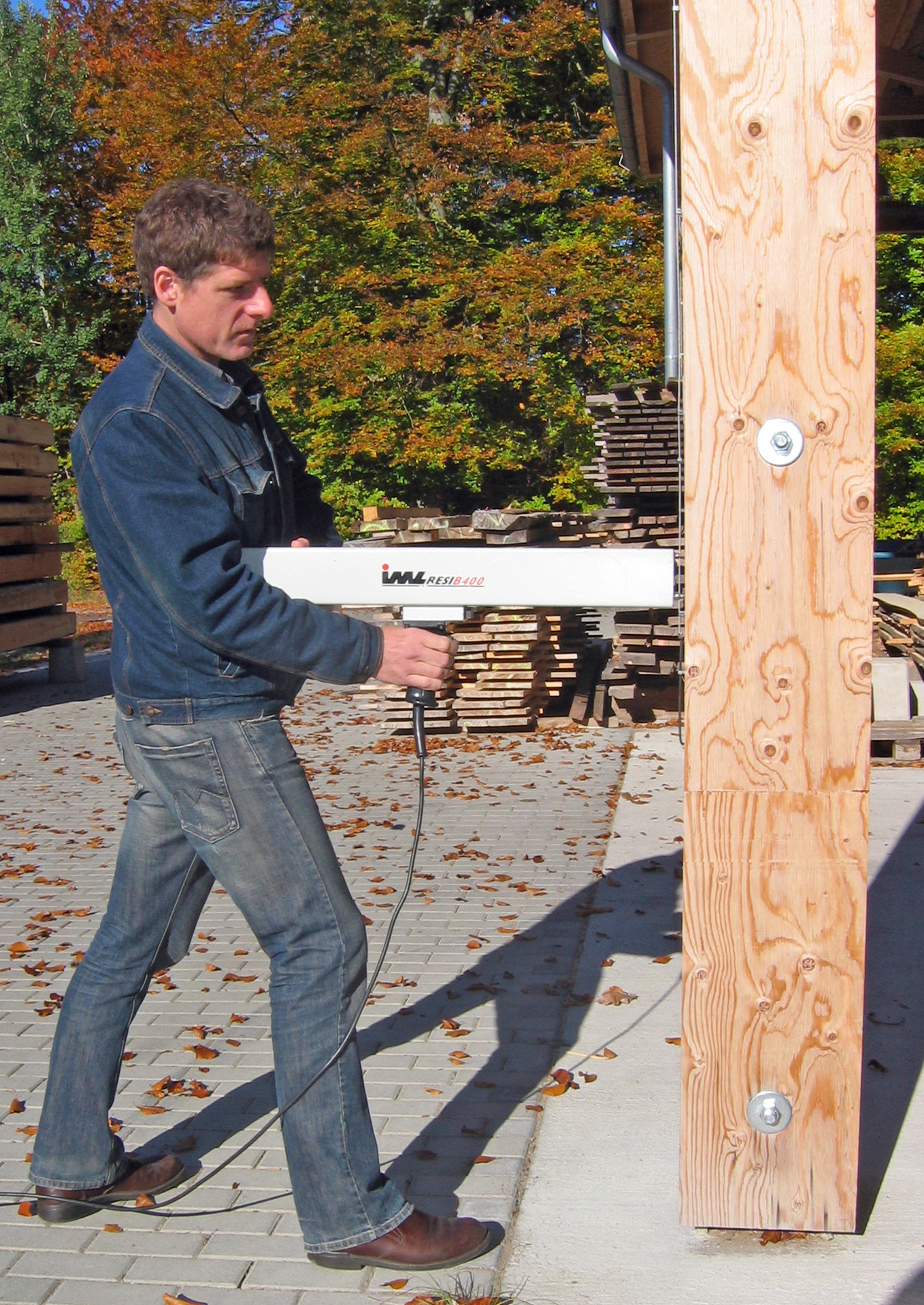 Building investigation by Resistograph